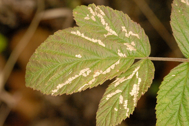 Phytomyza angelicastri from Commanster, Belgian High Ardennes .